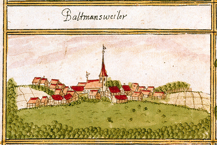 View of Baltmannsweiler from the forest register books created by Andreas Kieser